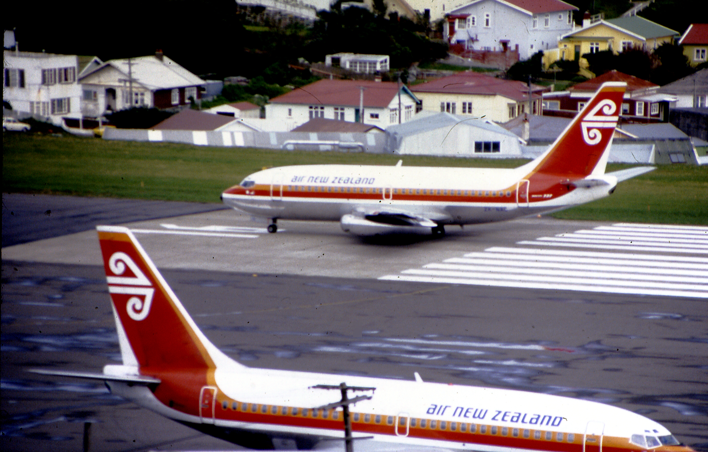 Interim Air New Zealand colour scheme of ex NZNAC Boeing 737 aircraft, 1980.